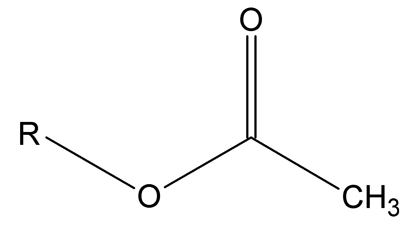 I made it myself using ACD/ChemSketch.